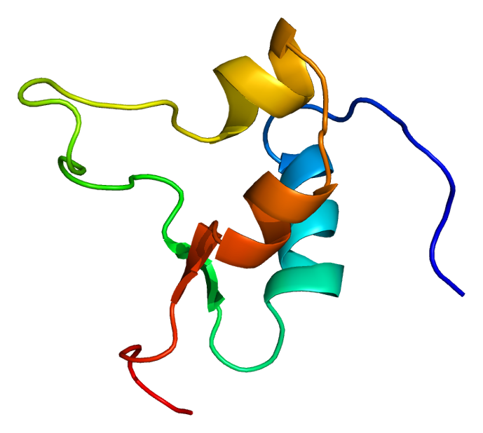 Structure of the IGF2 protein. Based on PyMOL rendering of PDB 1igl.